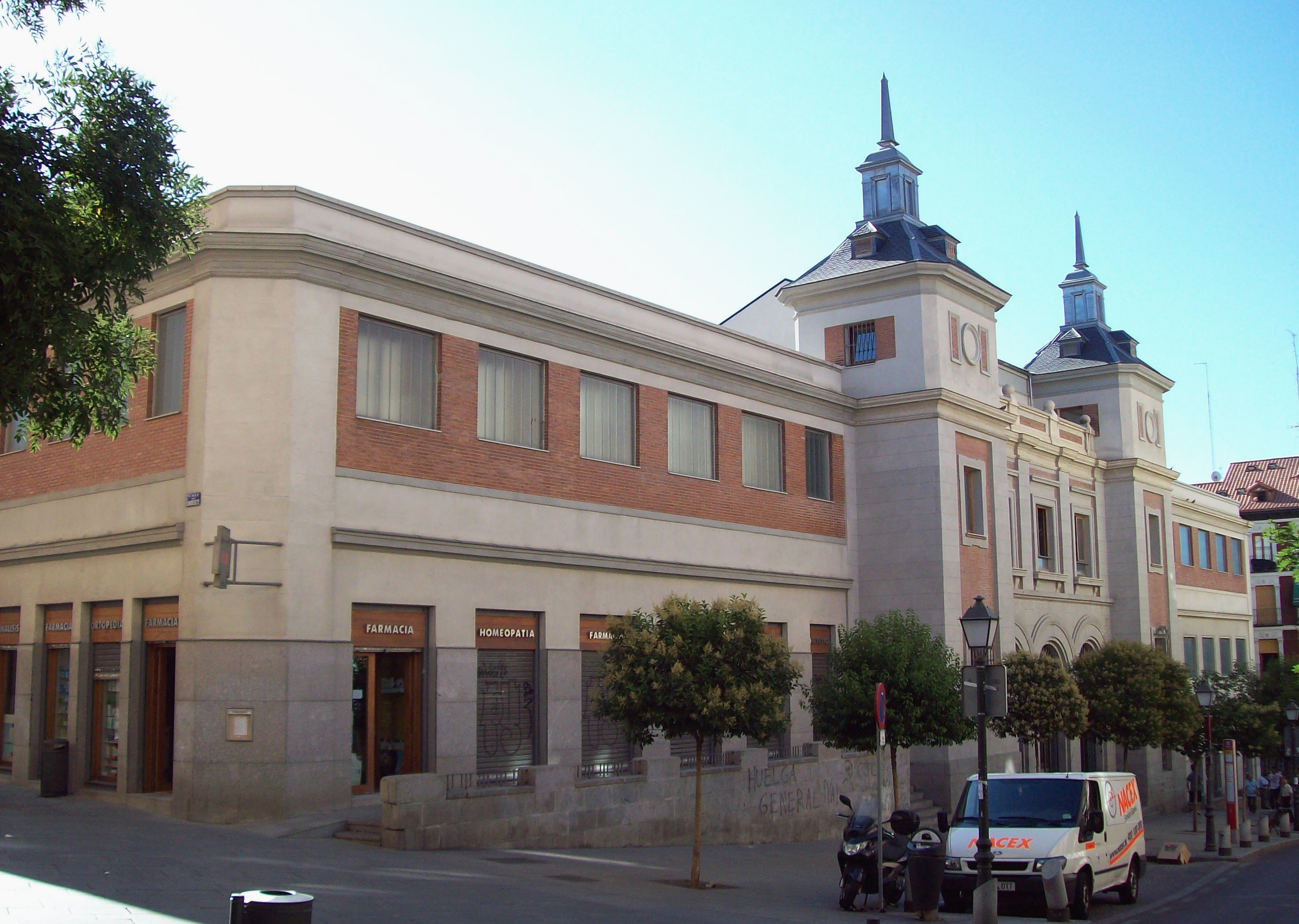 Façade of Mercado de San Fernando (a market) in Madrid (Spain), at 41 Calle de Embajadores (street) in Centro district. Building was projected in 1939 by Casto Fernández-Shaw Iturralde and built from 1942 to 1944.